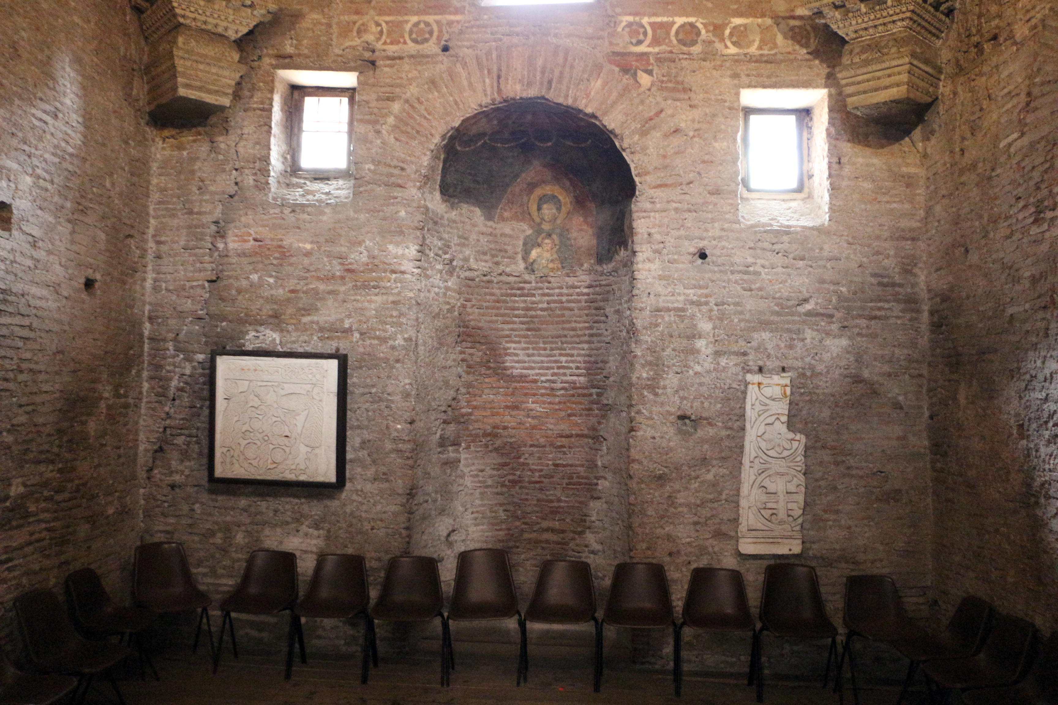 Santi Quattro Coronati (Rome) - Cloister